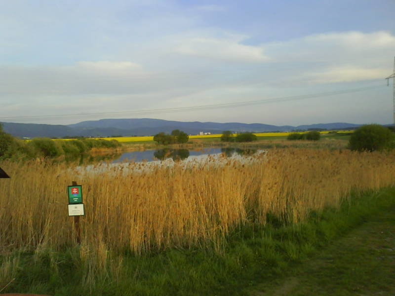 Mokrade turca - Ramsar locality